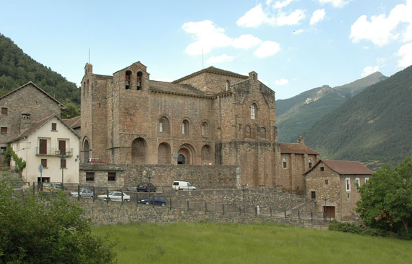 San Pedro de Siresa Monastery. Siresa, Huesca, Spain